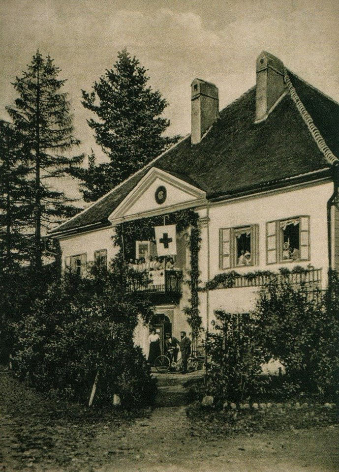 Postcard of Troblje.